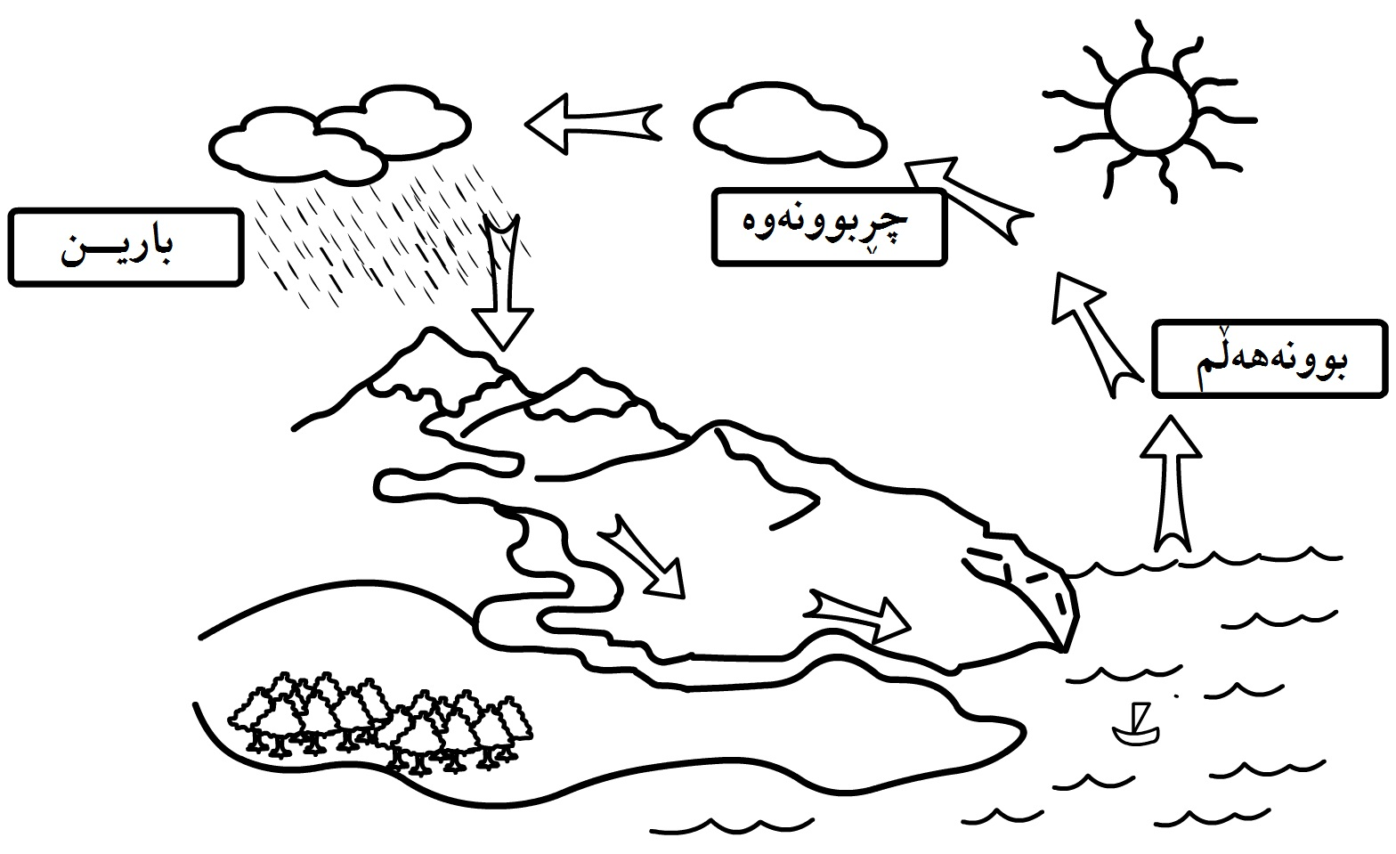 Water cycle